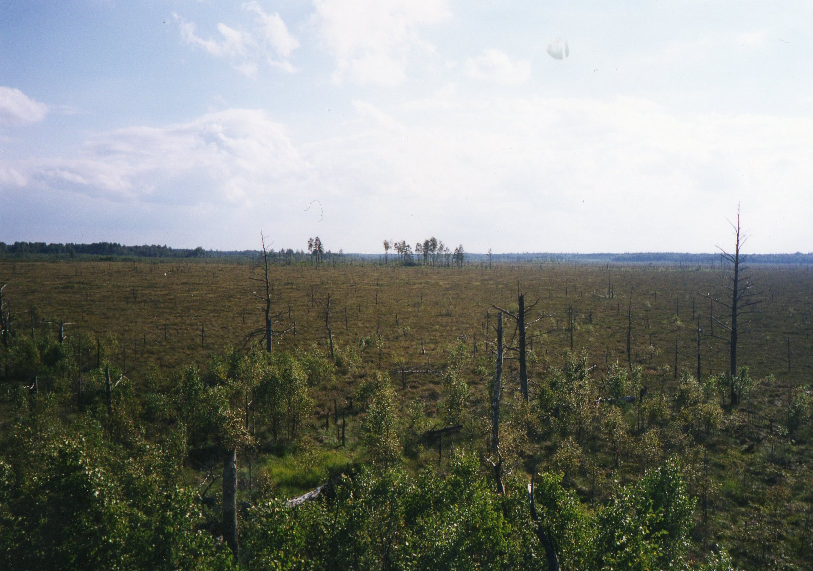 National parks in Sweden, Store Mosse nationalpark